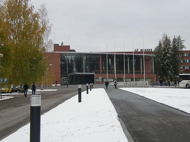 Lappeenranta University of Technology, Lappeenranta, Finland. Main entrance photo taken in 2002 winter.